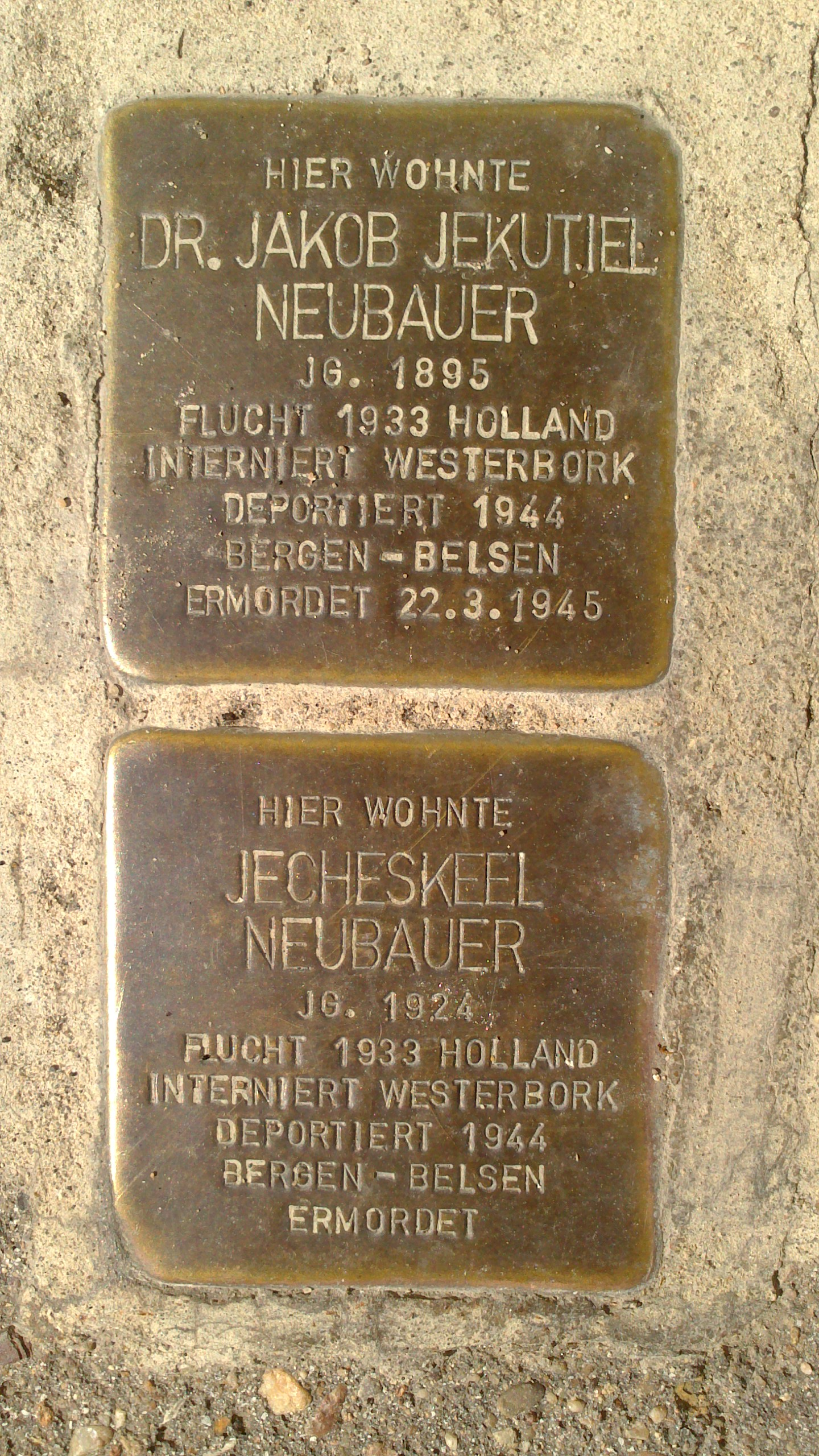 Memorial stones for Jakob Neubauer and his son. Würzburg, Ebrachergasse 4